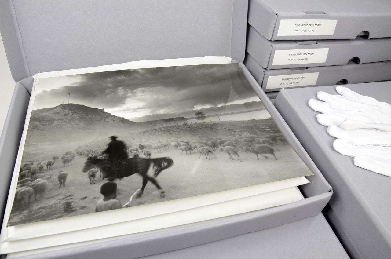 Registered inventory of the photo archive Heinz Krüger. On the picture: Kirghiz shepherds at Issyk-Kul, September 1971. (Photo: Bert Krüger, Museum and Gallery Falkensee, Germany)